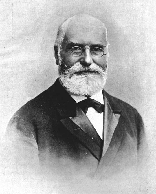 Portrait of Theophilus Waldmeier (1832-1915).